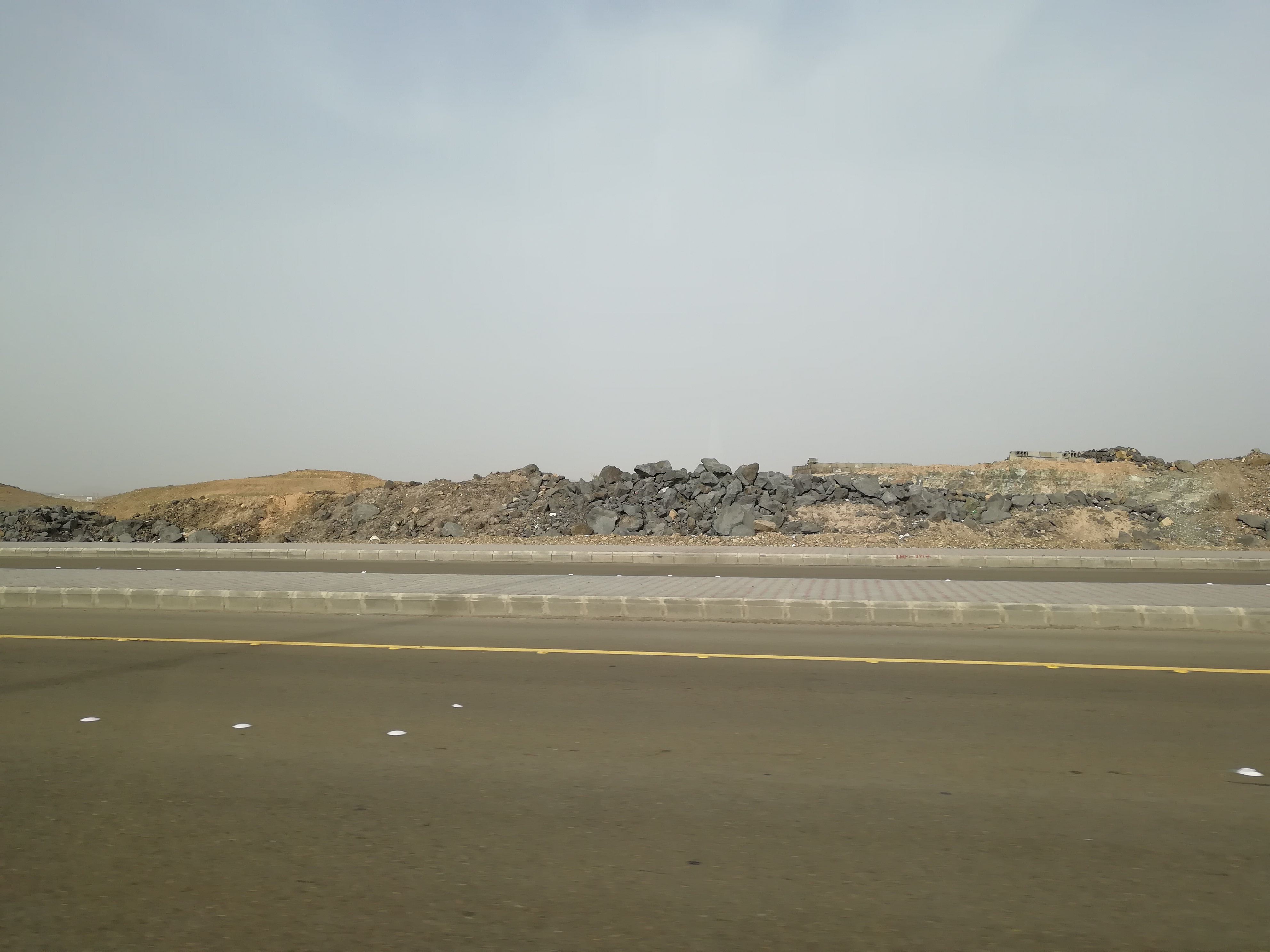 al-Madinah al-Munawarah Airport road Hirrat al-Madina volcanic rocks لابة المدينة Lava أو الحِرّة End of Medina Haram